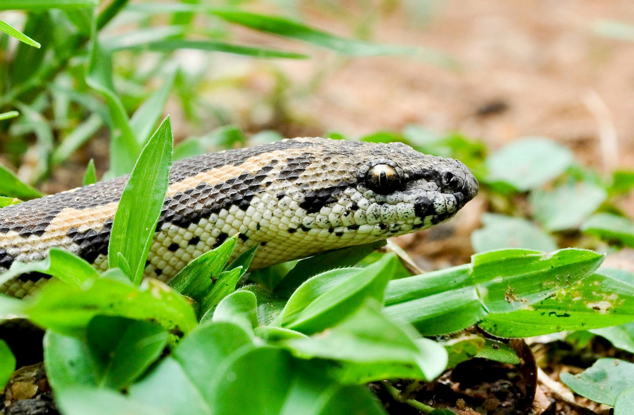 The Erycinae are part of a family of non-venomous snakes called boas found in Europe, Asia Minor, Africa, Arabia, central and southwestern Asia, India, Sri Lanka, and western North America. Three genera comprising 15 species are currently recognized.